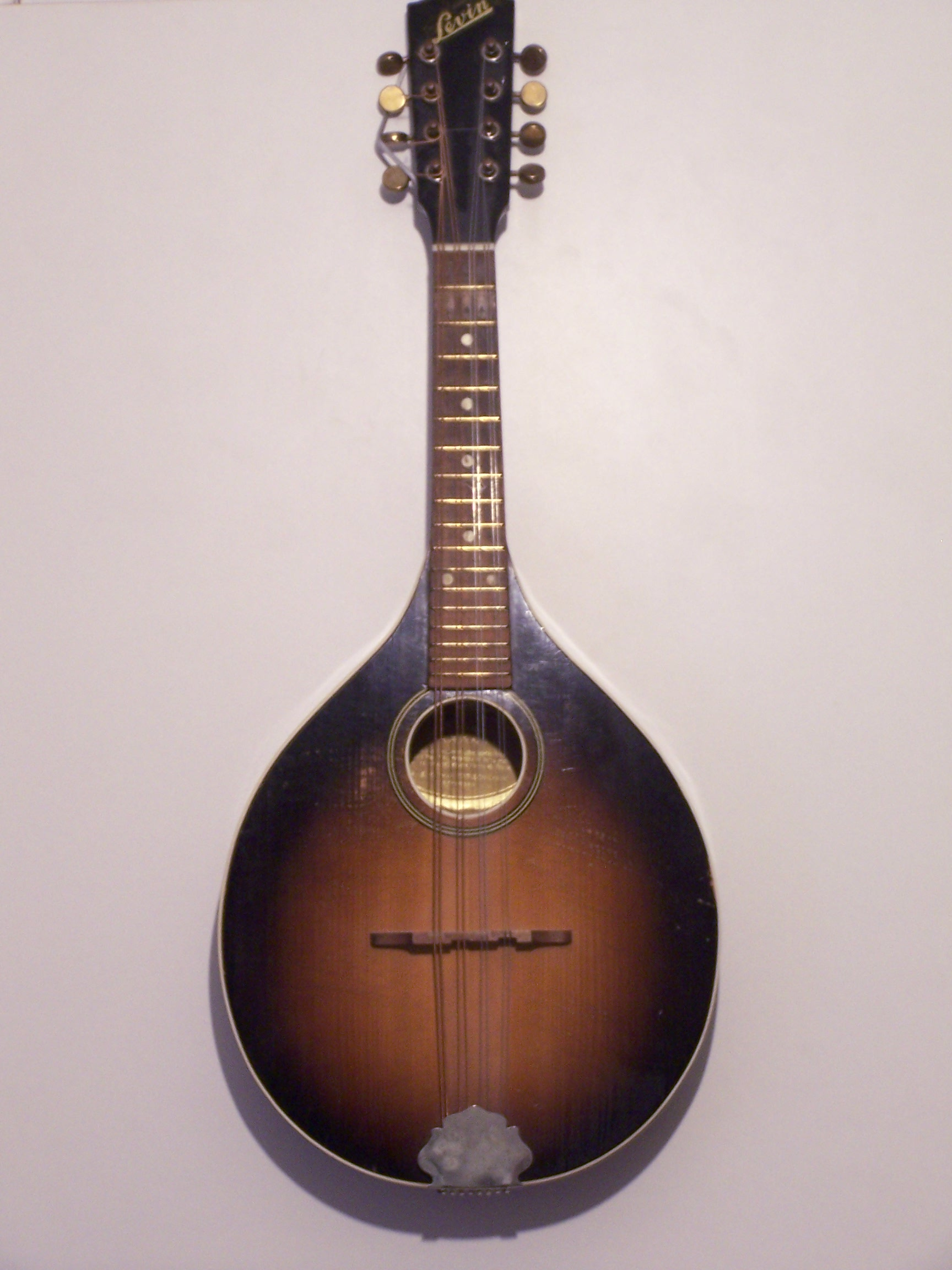 Mandolin of the brand Levin.